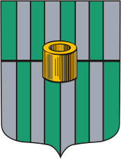 Venyov (Tula oblast), coat of arms (1778)